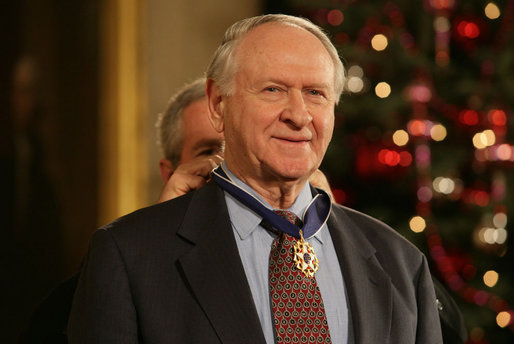 President George W. Bush honors William Safire with the 2006 President Medal of Freedom during ceremonies Friday, Dec. 15, 2006, at the White House. Said the President of the former White House speech writer and newspaperman, "He's a voice of independence and principle, and American journalism is better for the contributions of William Safire."